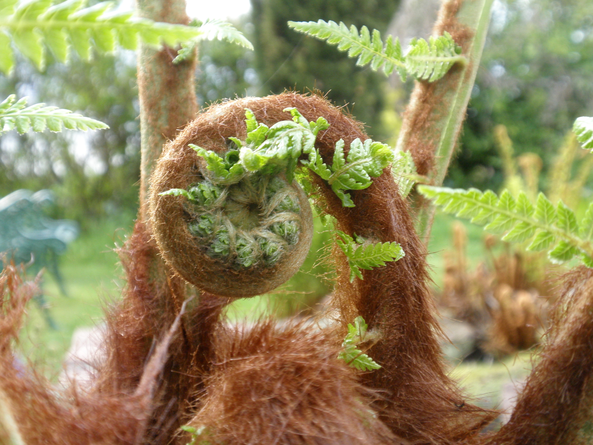 Many years ago I took A level Botany, consequently the term "circinate vernation" is etched deeply into my brain. Despite that, I never tire of observing the real thing in action! Circinate vernation is the name given to the manner in which new fern fronds emerge. As a new fern frond is formed, it is tightly curled so that the tender growing tip of the frond (and each subdivision of the frond) is protected within a coil. At this stage it is called a crozier (after the shepherd's crook). In the case of many fronds, such as that of the Australian tree fern long hairs or scales provide additional protection to the growing tips before they are fully uncoiled. Dicksonia antarctica, known as the Soft Tree Fern, Man Fern or Tasmanian Tree Fern is an evergreen tree fern native to parts of Australia, namely New South Wales, Tasmania, and Victoria.